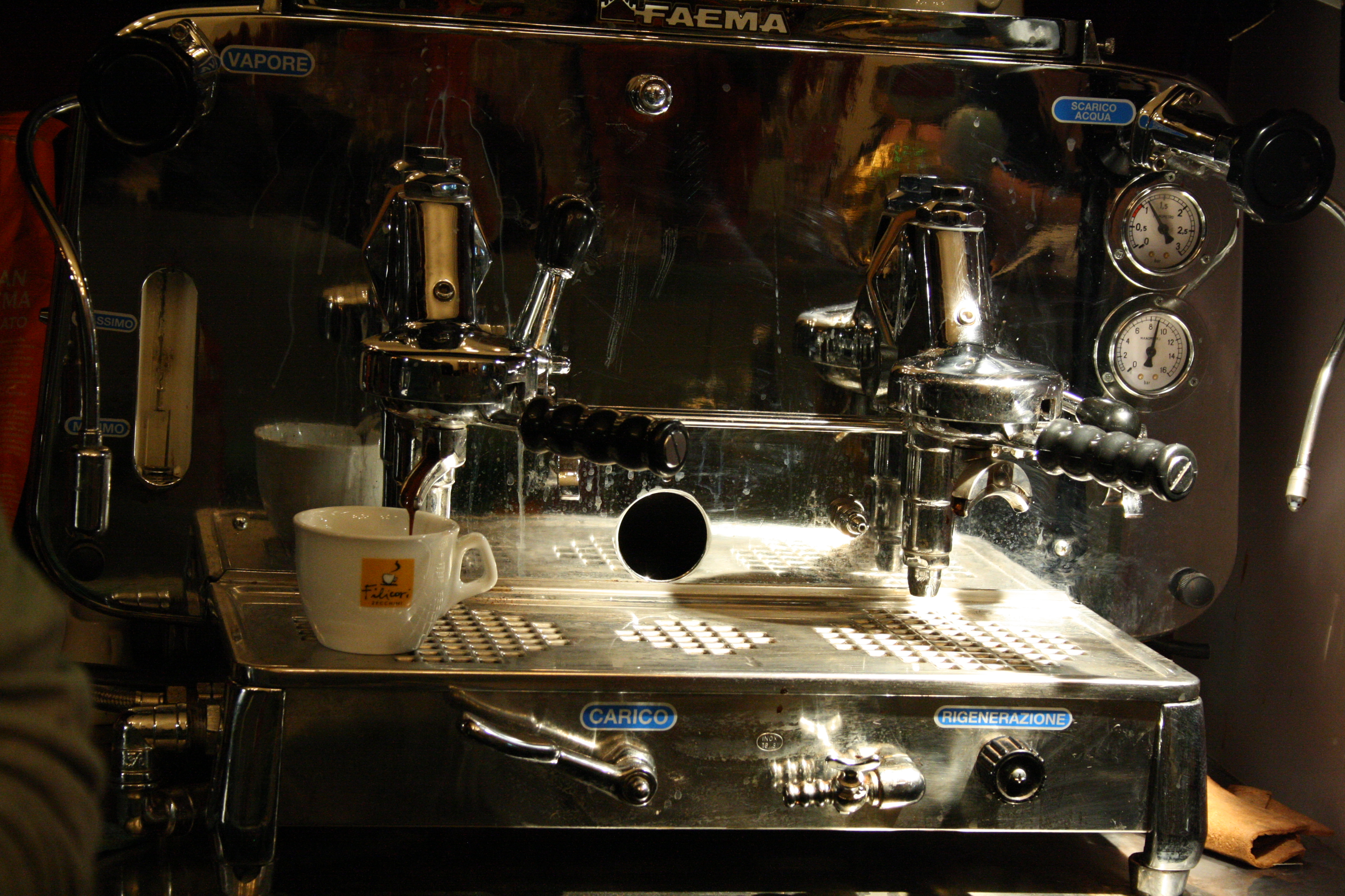 Espresso making on espresso machine Faema at Latte Art Jam in Sunakashi Café in Brno.